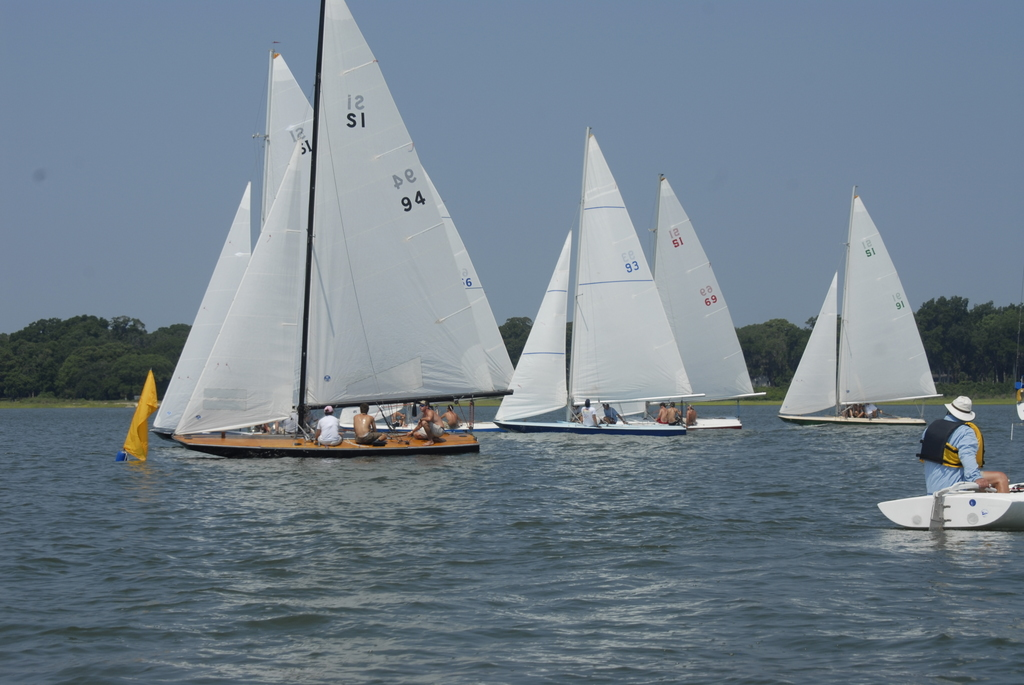 The Sea Island One Designs on the starting line.